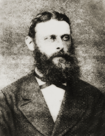 Gustav Albers, enterpeneur in Russian Far East, co-founder of Kunst&Albers